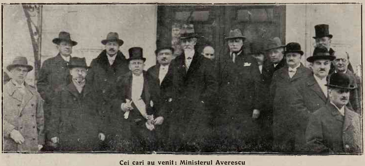 The Romanian Government led by Alexandru Averescu, when it was voted in the Parliament.